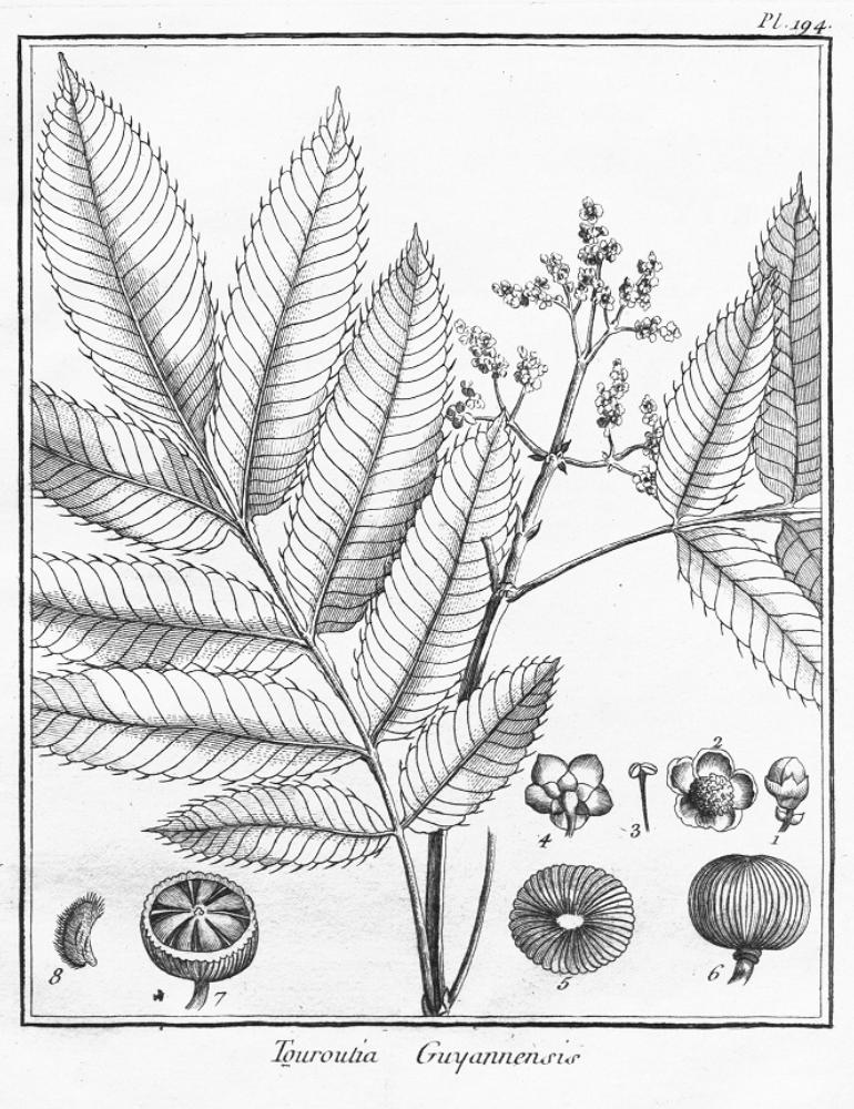 Illustration of Touroulia guianensis (Orig. Touroulia guyannensis)